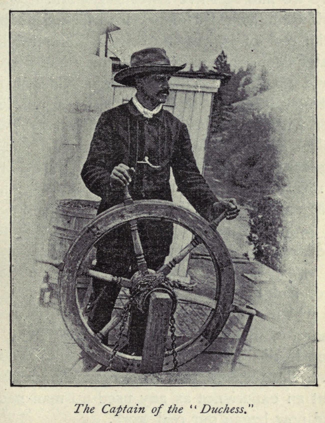 Frank_P_Armstrong_at_wheel_of_steamboat Duchess, 1887, near Golden BC.JPG.